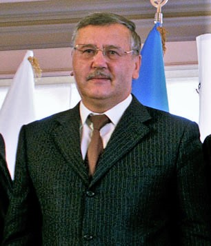 Anatoliy Hrytsenko, Ukrainian politician, member of the Ukrainian Verkhovna Rada